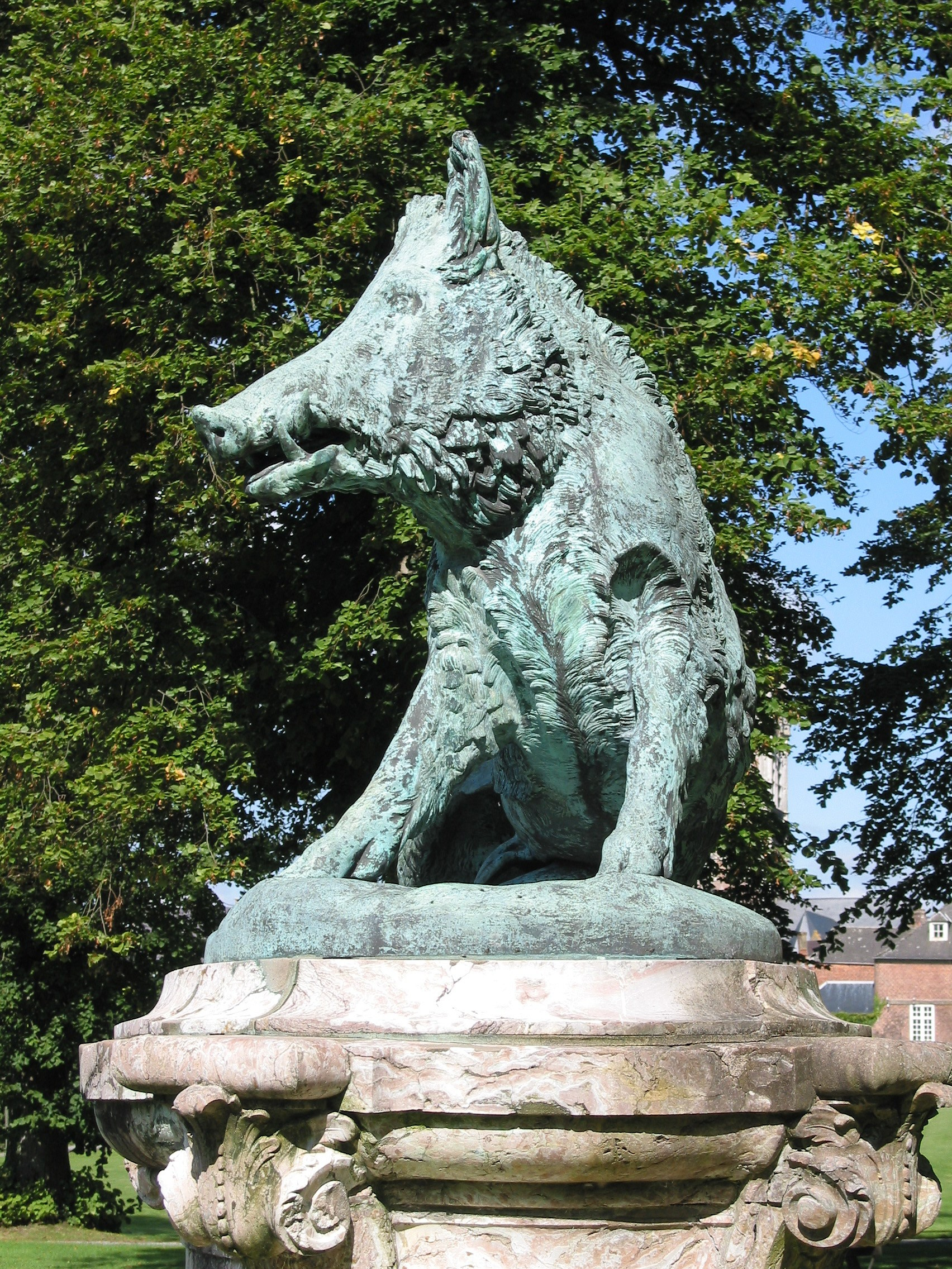 Fine bronze statue copy a Greek antiquity known under the name "Il porcellino" (XVIIth century sculptor: Pietro Tacca, 1577-1640) adorning the castle park in Enghien (Belgium).